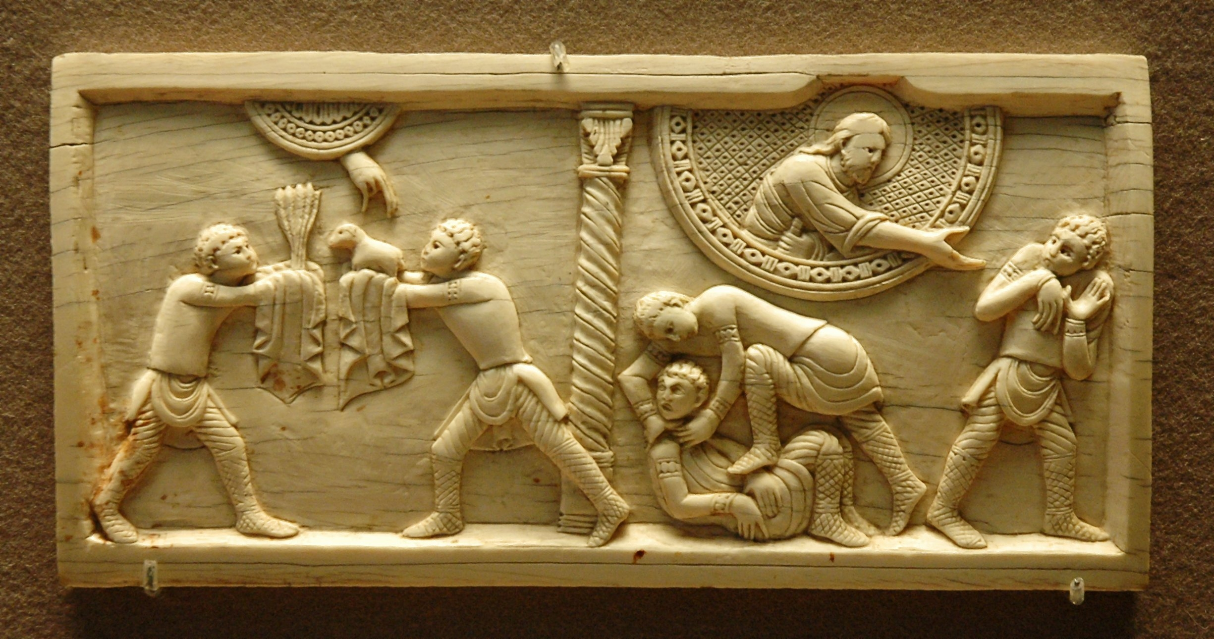 Cain and Abel, ivory panel from the cathedral of Salerno, ca. 1084.